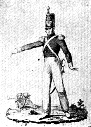 Voluntario realista de Madrid de artillería